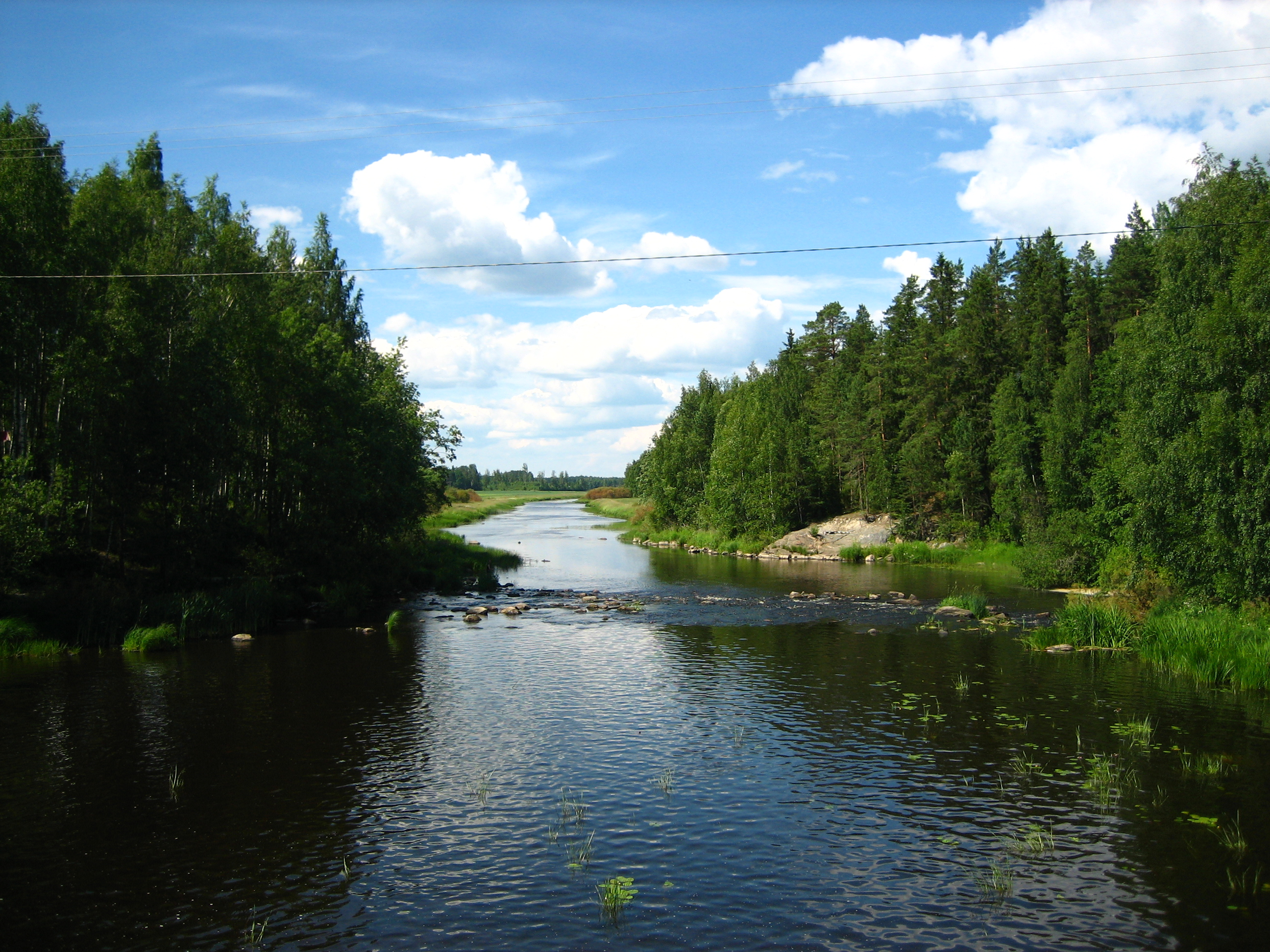 Pomarkku River, Finland, seen from the Riuttansalmi bridge towards northwest